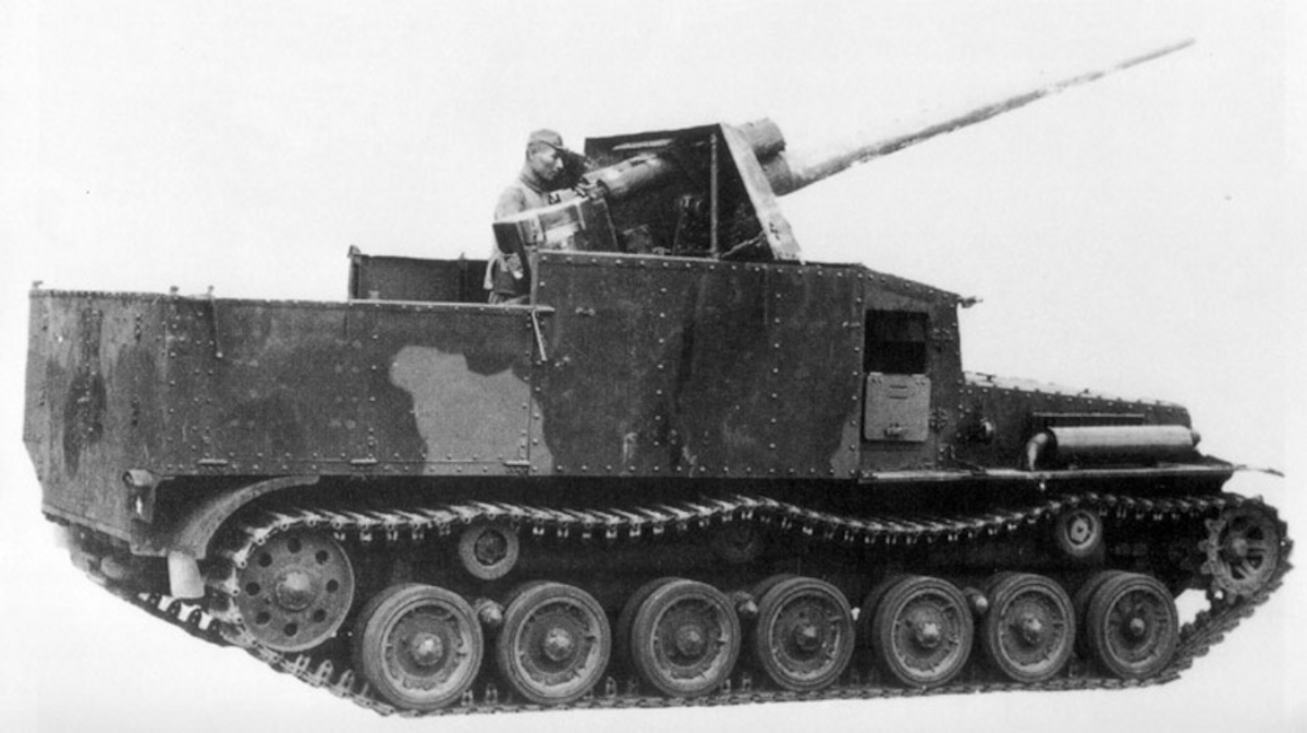 A Type 5 Na-To tank destroyer of the Imperial Japanese Army. Only 2 prototype were built in 1945.